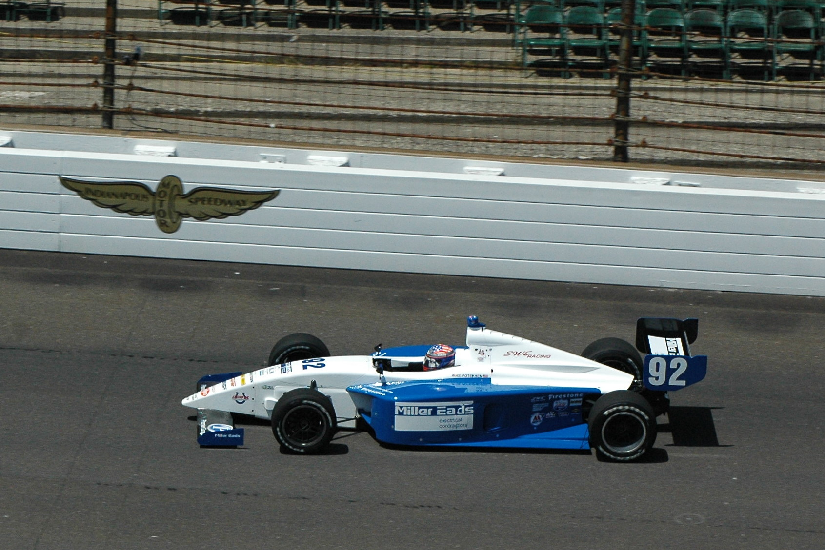 Mike Potekhen racing in the Firestone Freedom 100 Indy Lights race